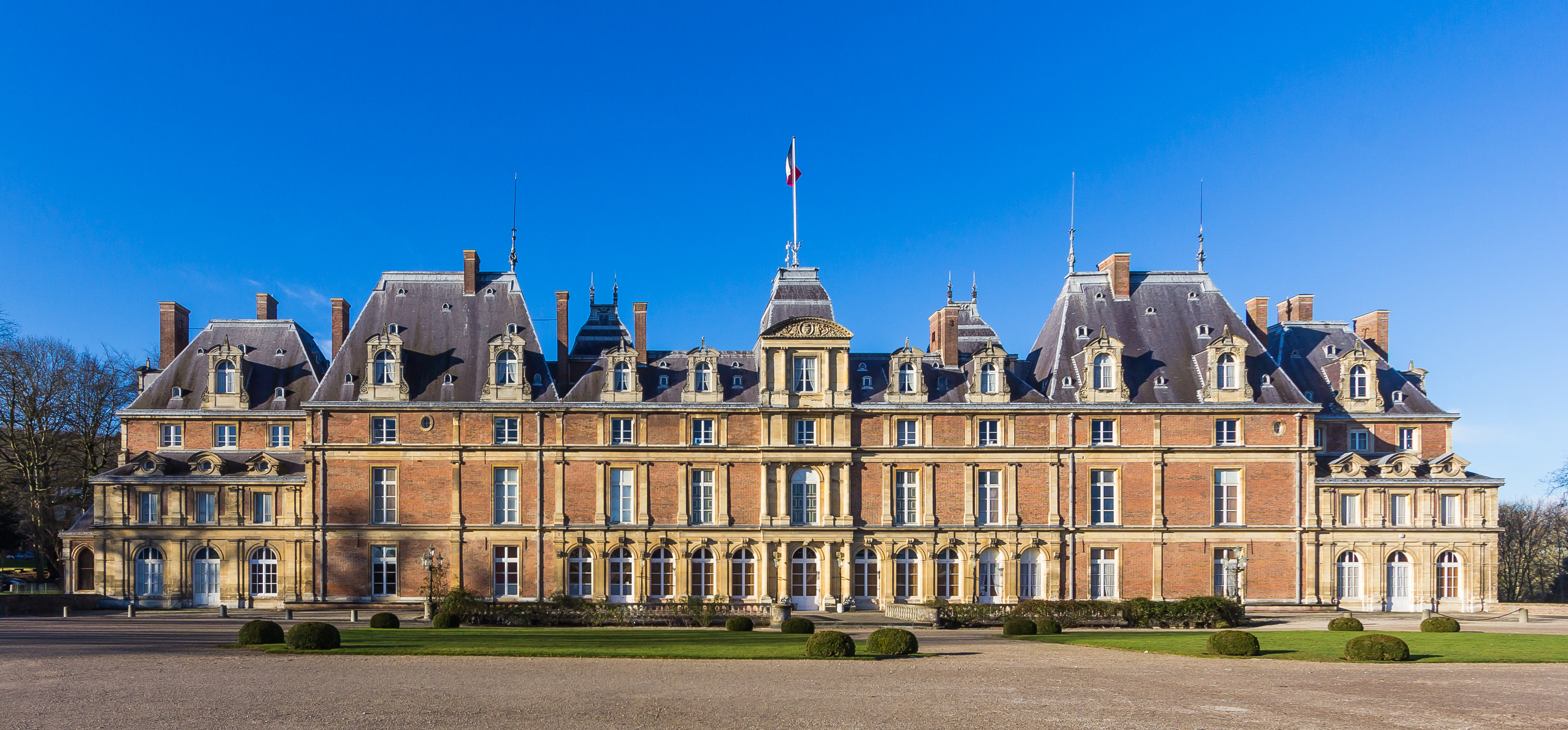 Château d'Eu